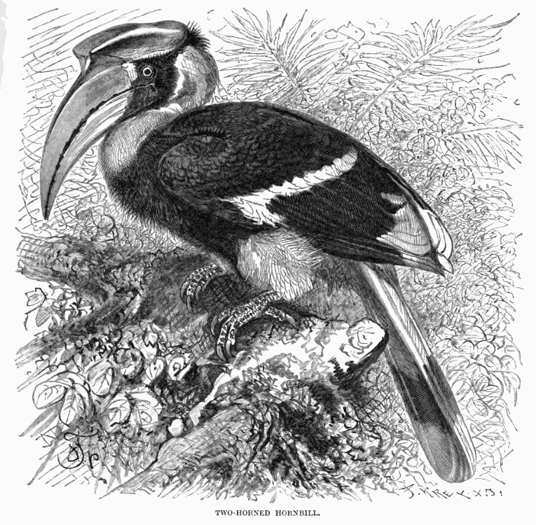 Buceros bicornis, Great Hornbill